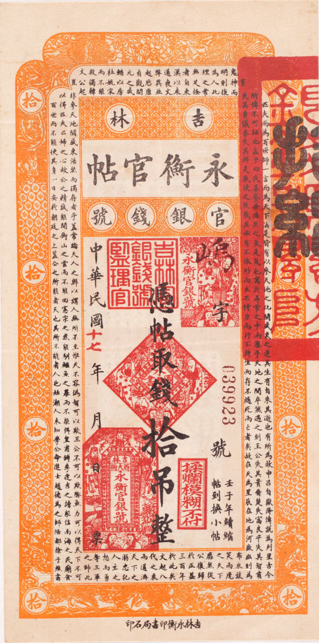 Chinese Treasury Bond (官銀錢號) circulated as banknote substitute, 1928